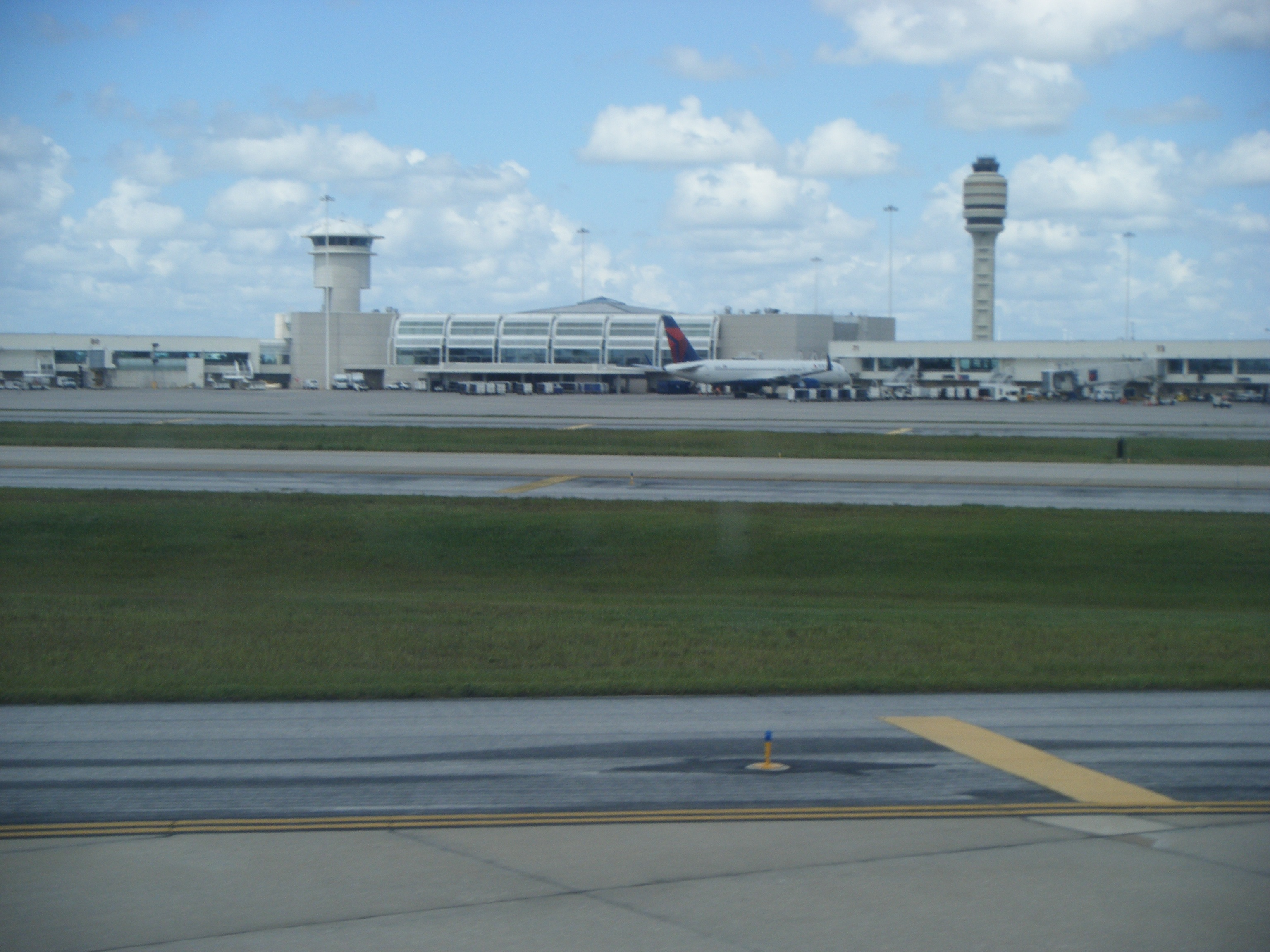 The terminal of the Orlando International Airport in Orlando, Florida seen from an arriving airplane